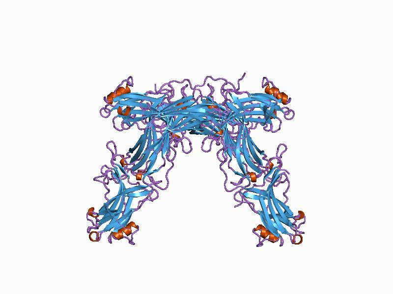 Cartoon representation of the molecular structure of protein registered with 1cf1 code.